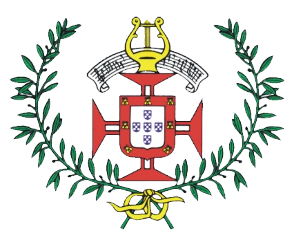 brazão afuv